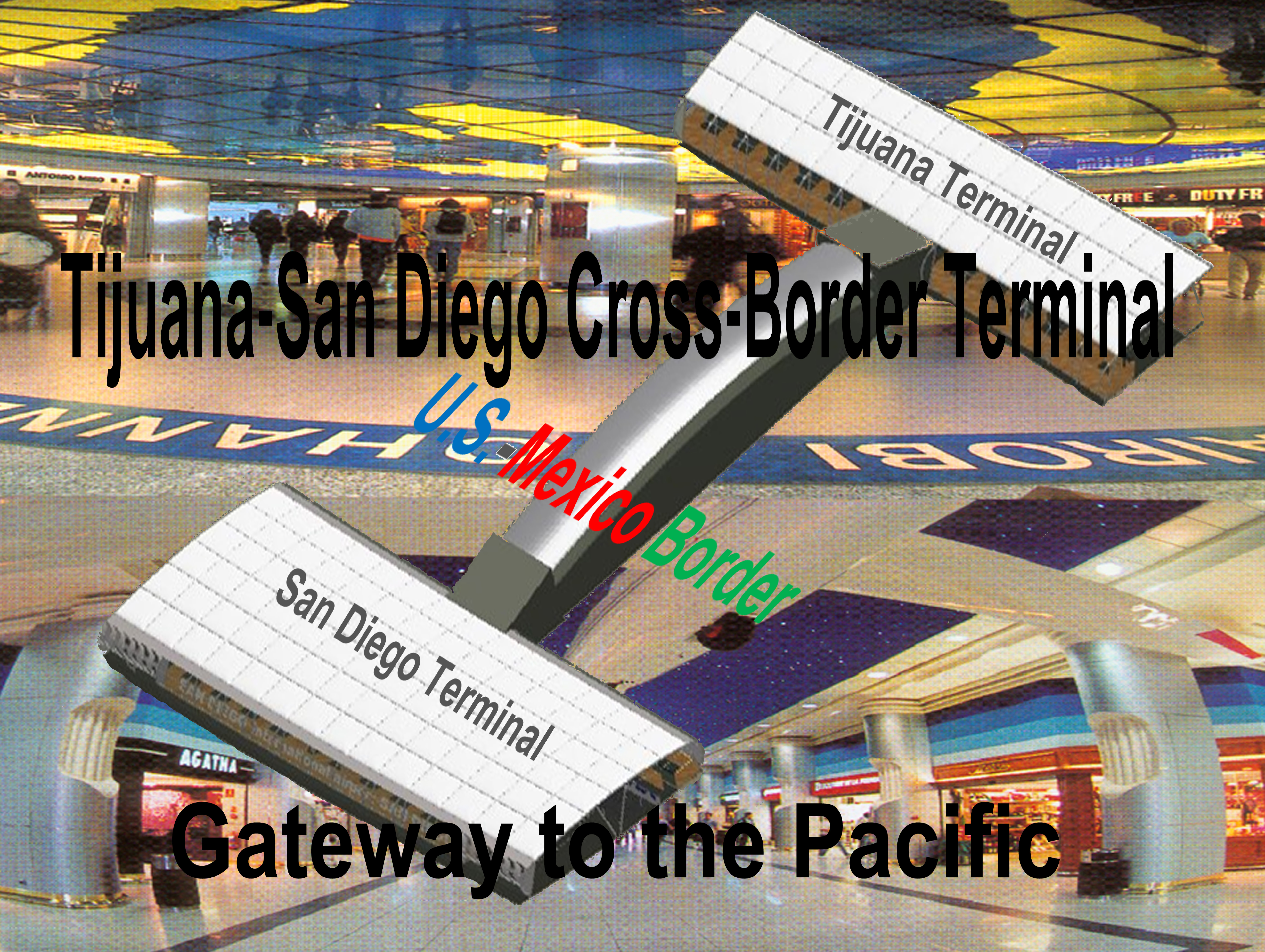 Cover showing the Tijuana cross-border terminal used at the Partnership for Prosperity Washington, D.C. 2002